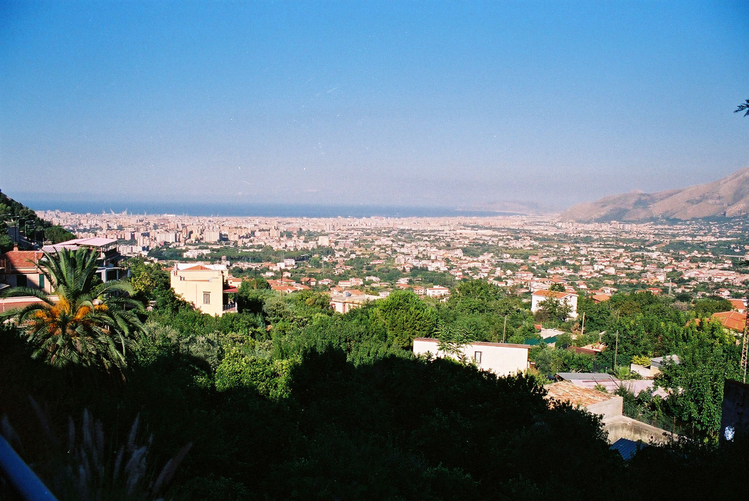 Palermo Panoramic view from Monreale.